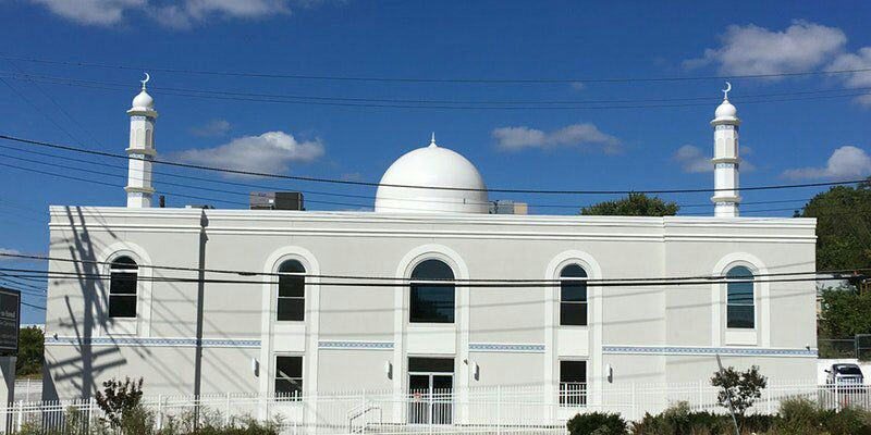 Baitus Samad